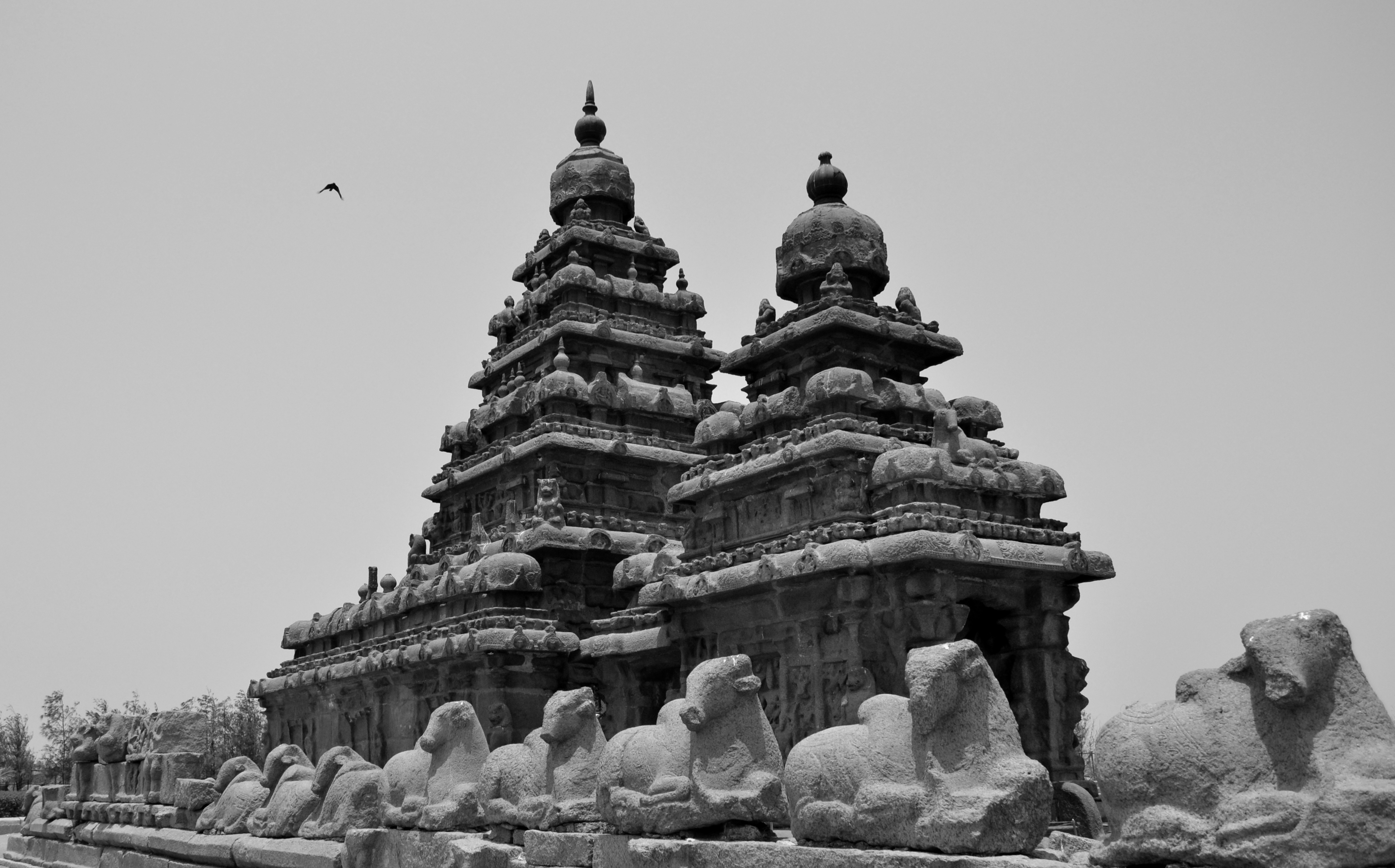 a view of the famous shore temple at Mahabalipuram. It is one of the 15 UNESCO world heritage sites in India.